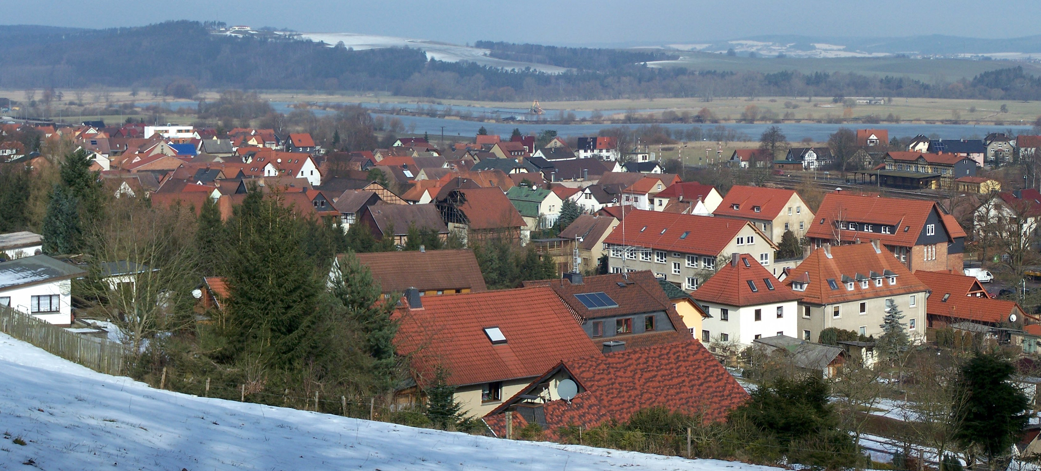 The middle area of Immelborn village.